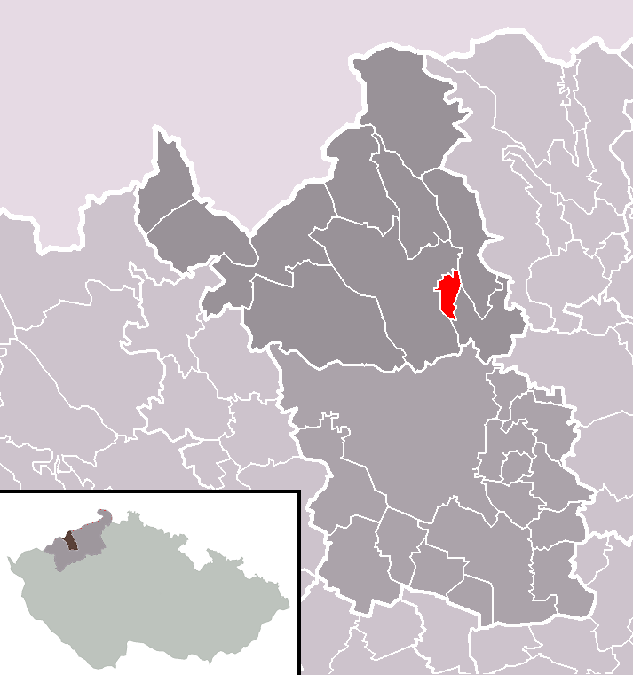 Location of Louka u Litvínova municipality within Most District and administrative area of Litvínov as a Municipality with Extended Competence.